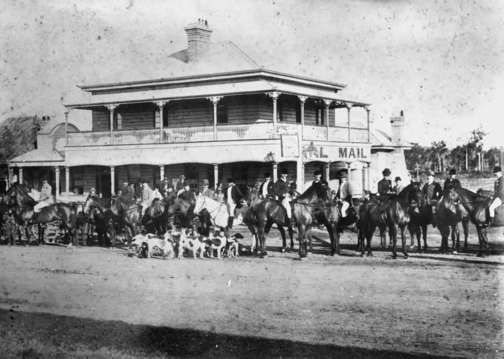 "Ready for the hunt ca. 1892 Goodna Royal Mail Hotel". Uploaded - "Goodstone" Title: Ready for the hunt, Goodna, Ipswich, ca. 1892 Location: Goodna, Ipswich, Queensland Date: ca. 1892 Creator: Unknown Description: Large group of horseriders and dogs gathered in front of a hotel at Goodna in readiness for a hunt. Original format: copy print : b&w Digital format: image/jpeg Publisher: John Oxley Library, State Library of Queensland Image number: 19620 Digital ID: picqld-acr-0210--2003-11-18-15-20 Rights: This image is free of copyright restrictions. For further information Source: Item is held by John Oxley Library, State Library of Queensland.